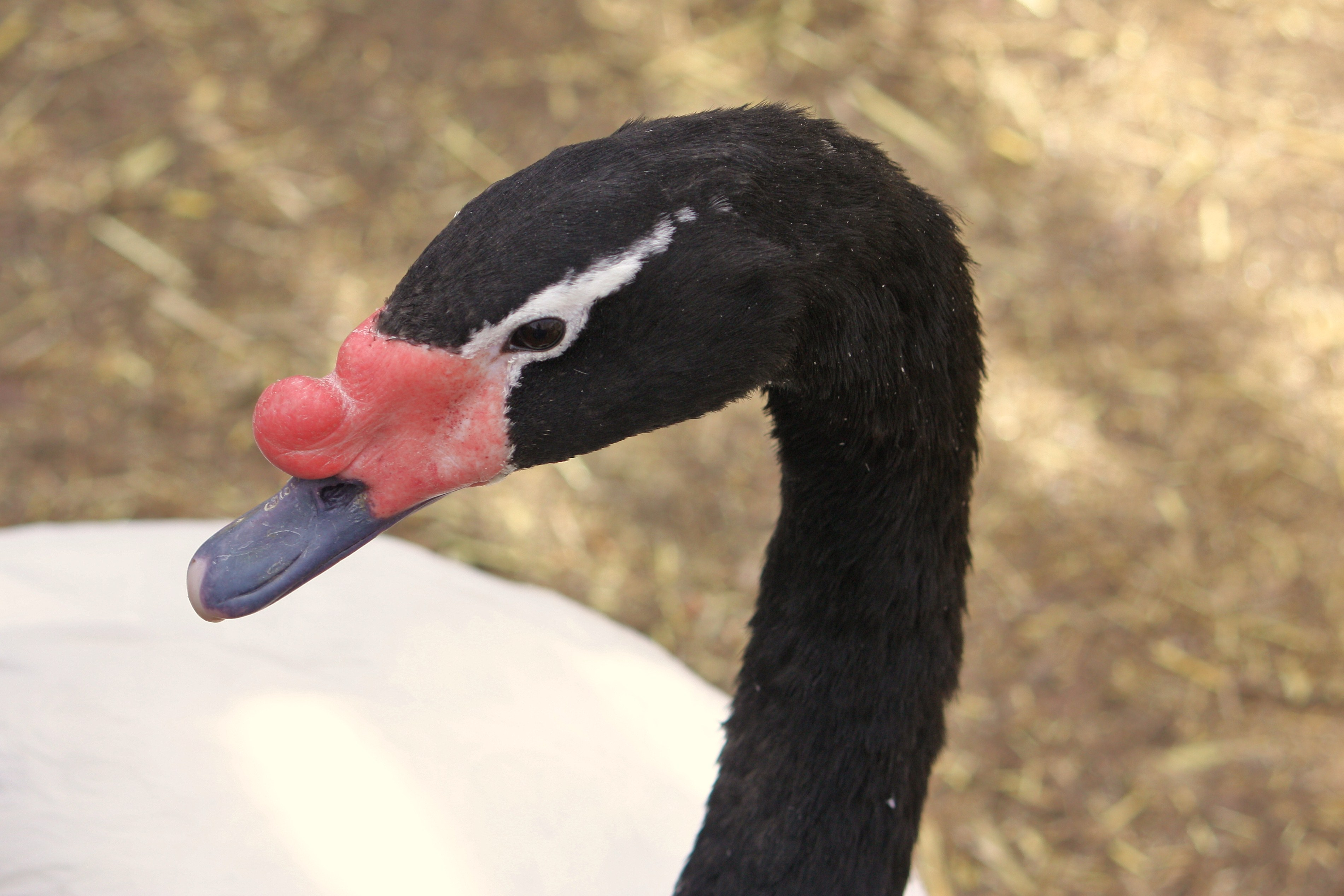 Black-necked Swan (Cygnus melancoryphus); closeup of head. Denver Zoo, Denver, Colorado.